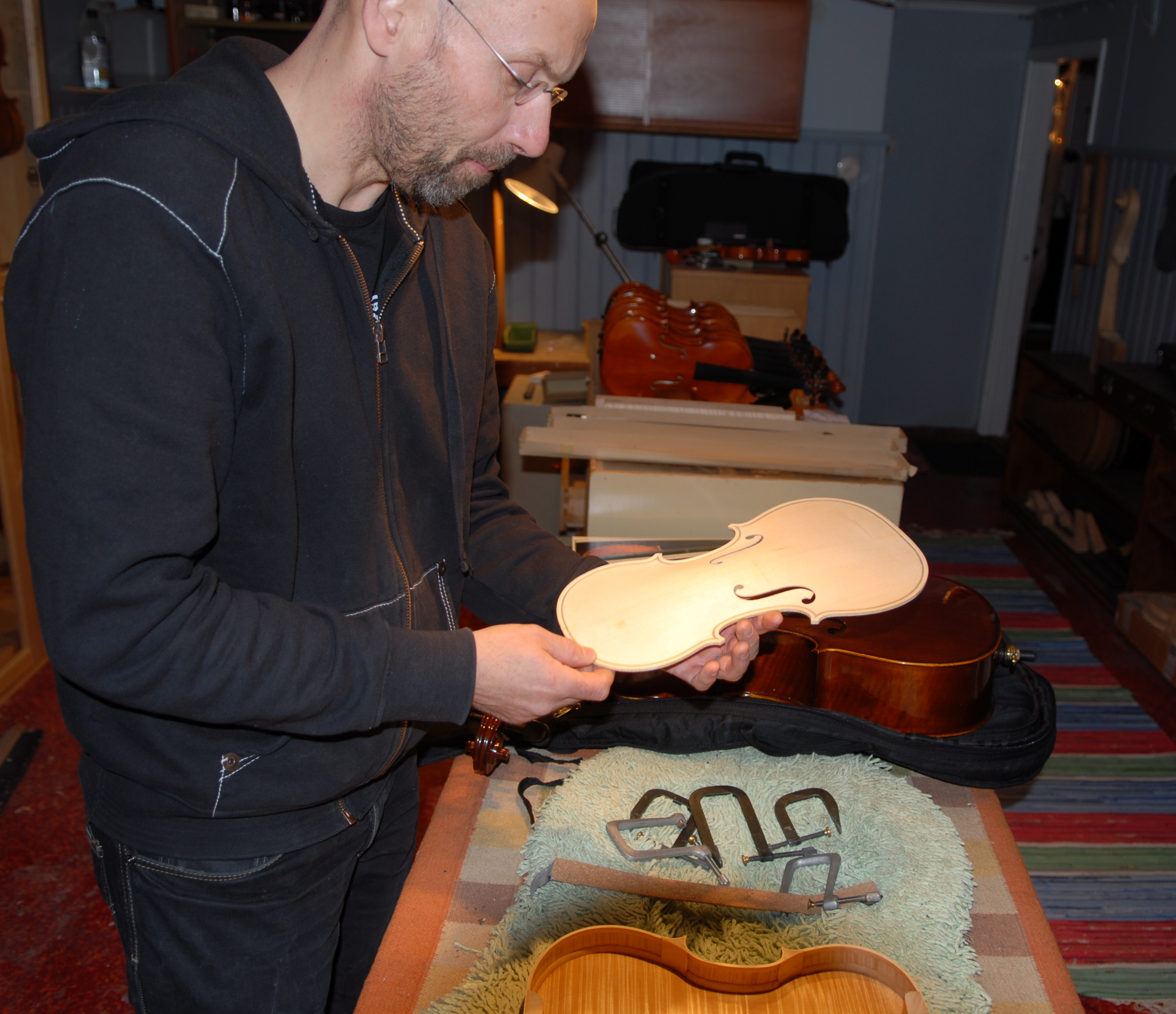 Swedish musician and luthier Anders Norudde building a violin